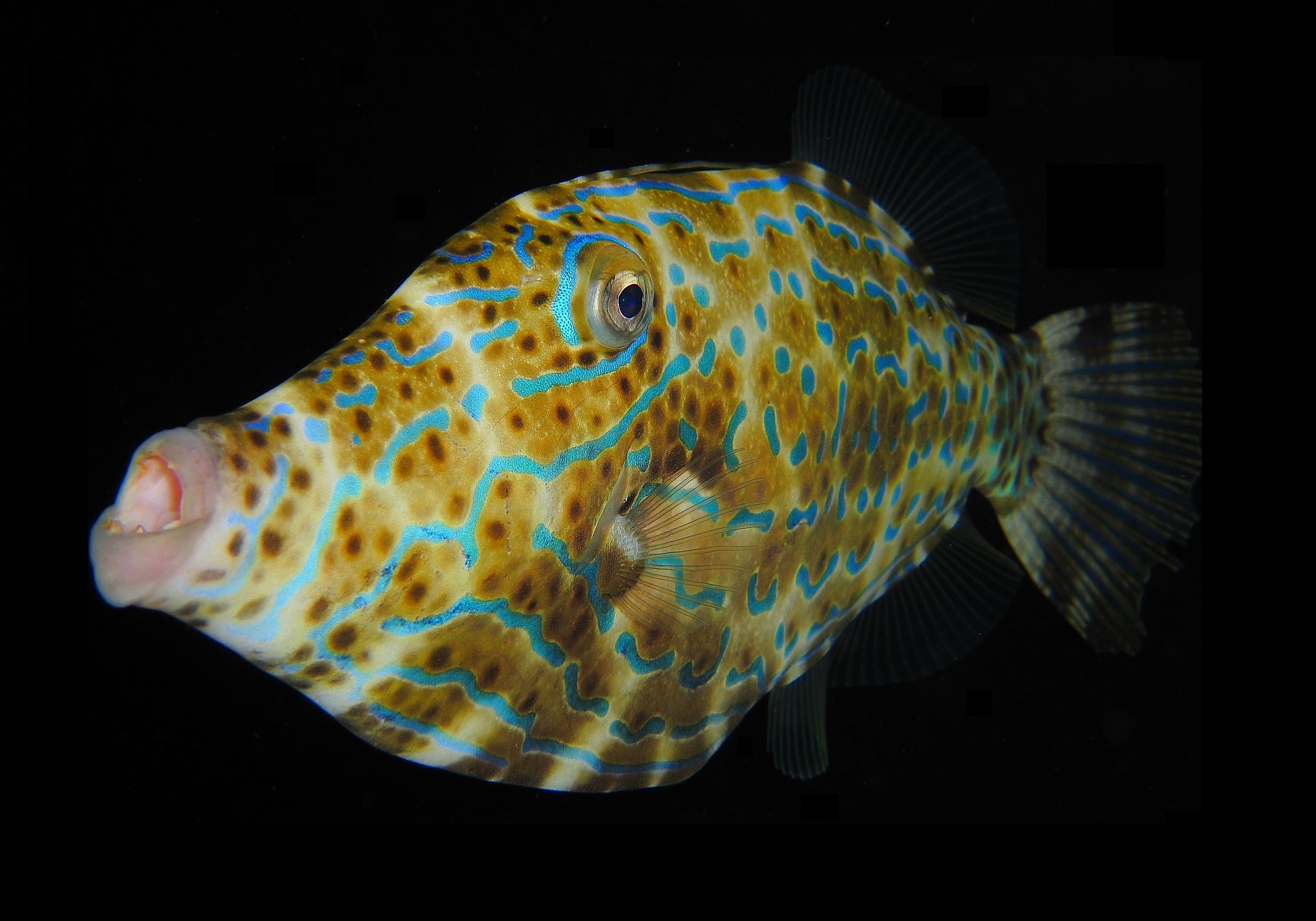 Scrawled Filefish